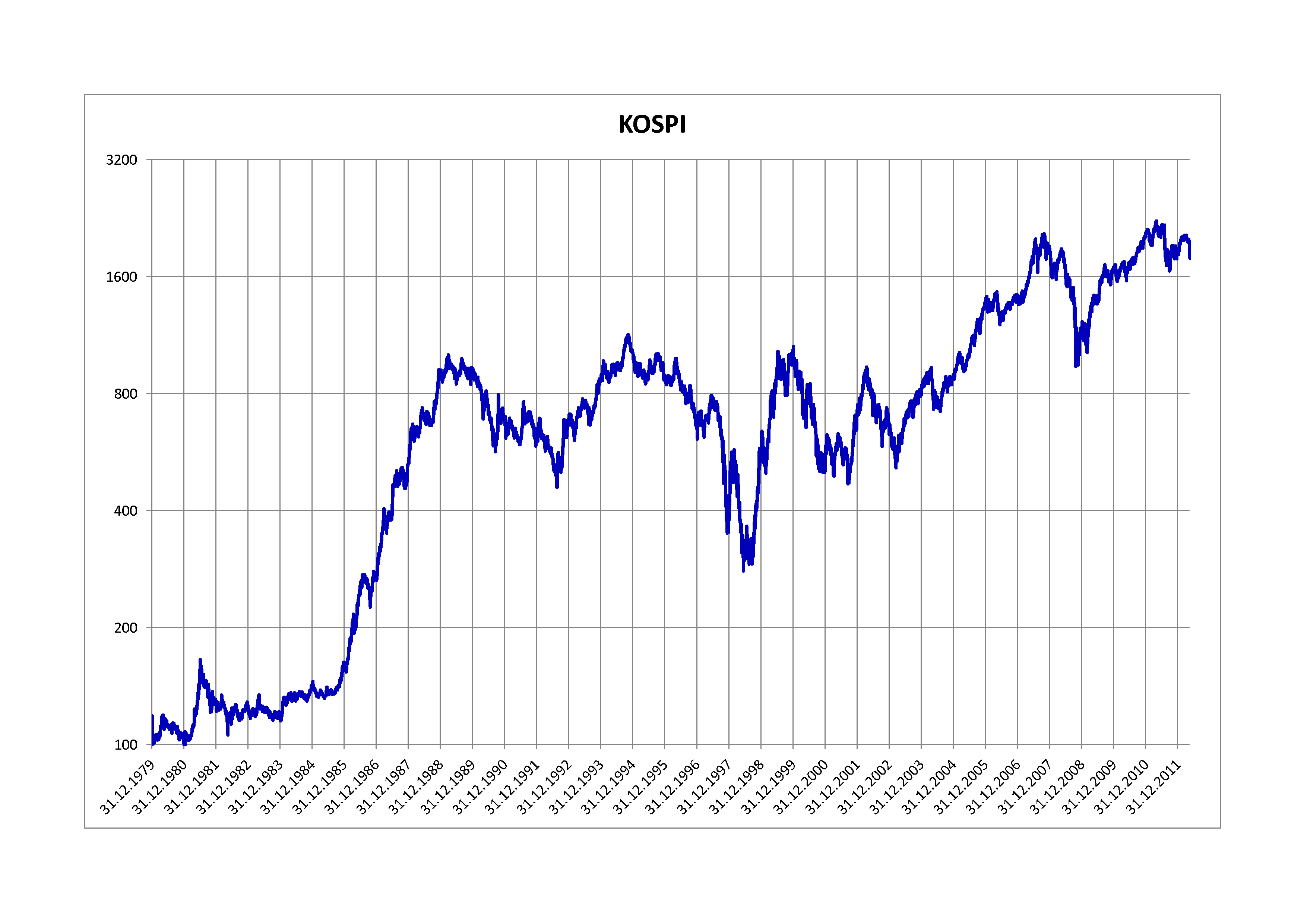 KOSPI from December 1979 to May 2012 (daily closings).